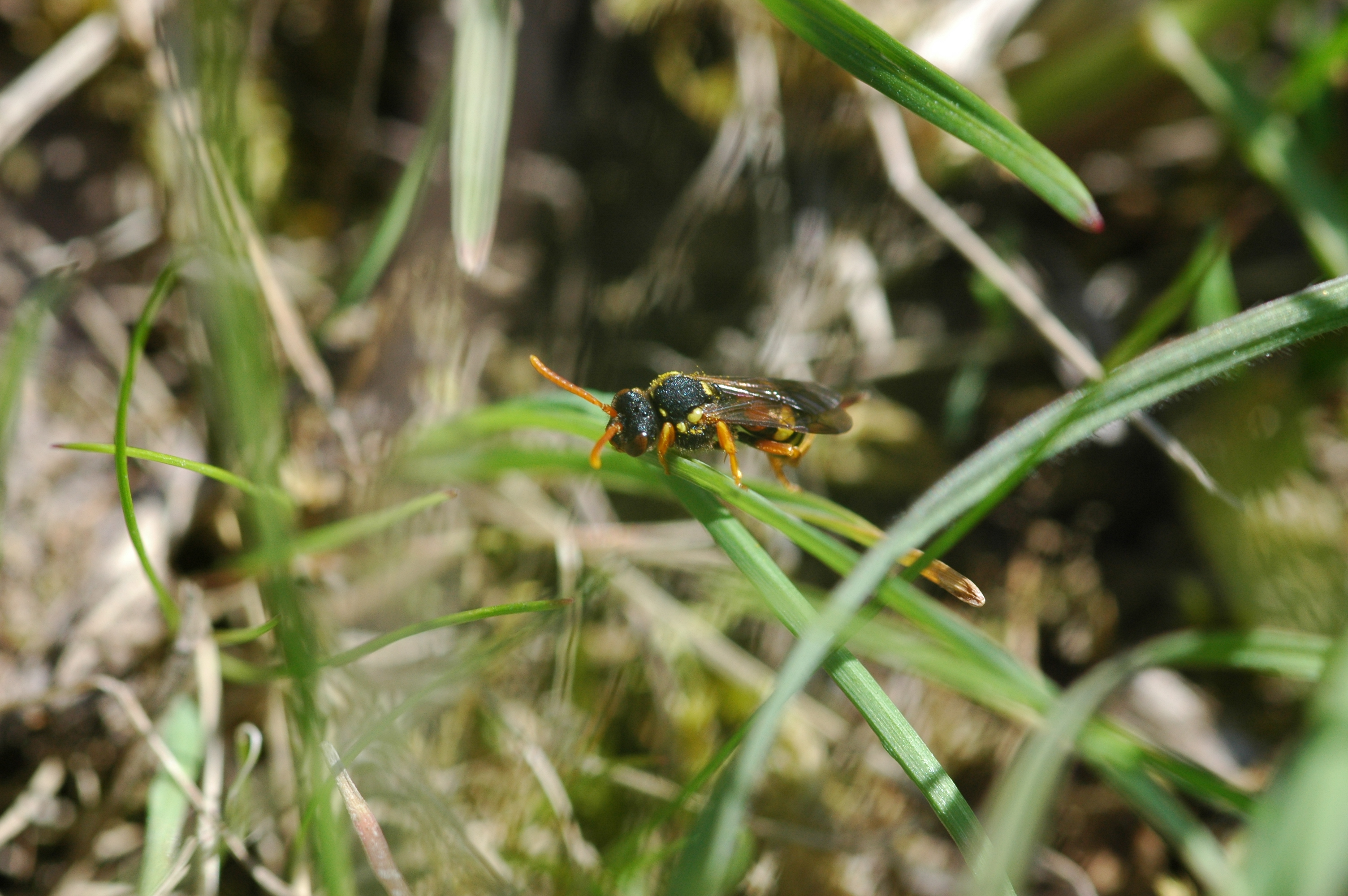 Probably Nomada fucata female